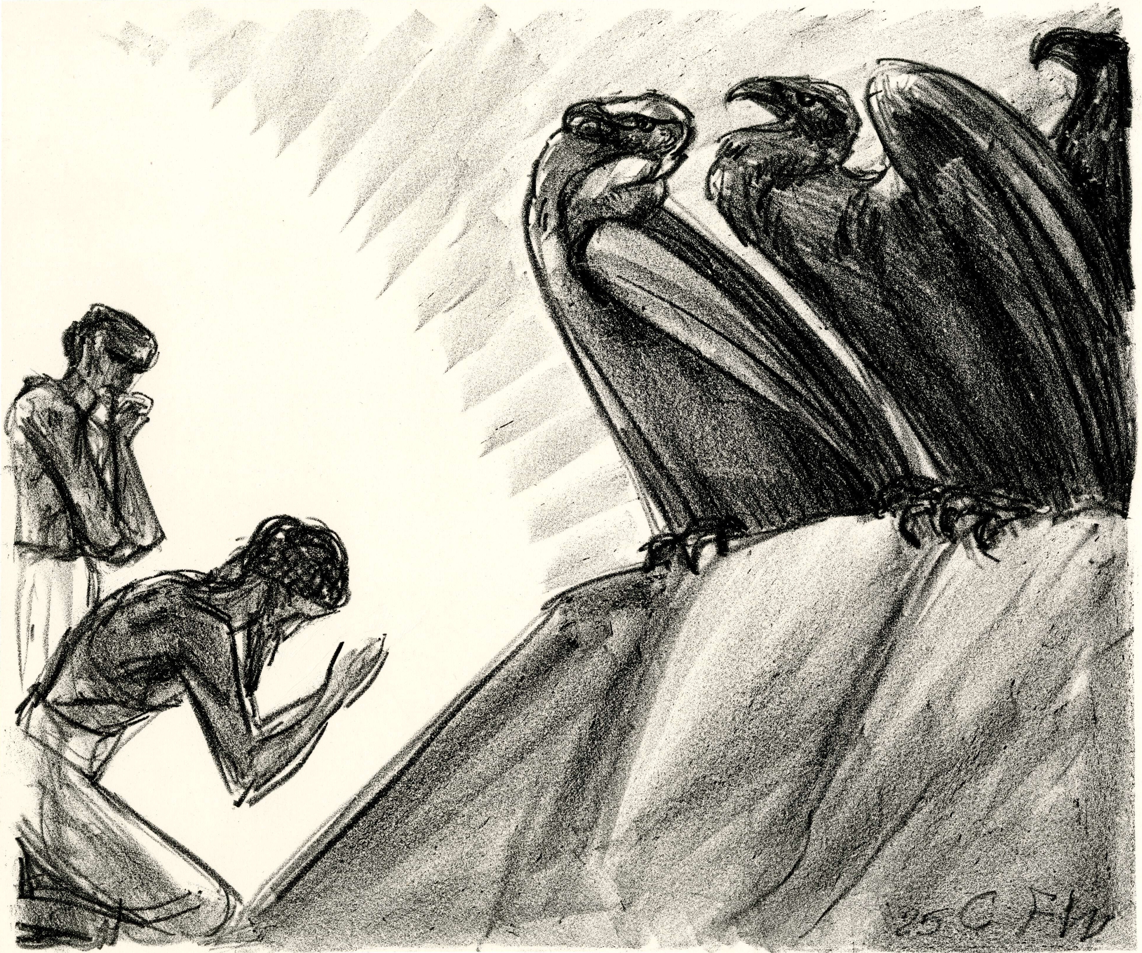 Two figures, one kneeling in prayer, before two vultures